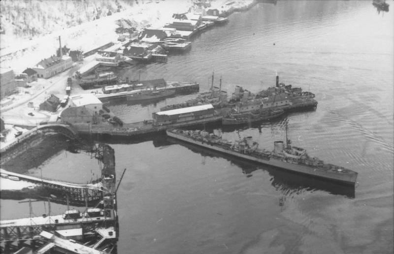 The harbour is Narvik Harbour. The building with the tall chimney is where Fagerveien 1 is today. The closest destroyer is the Diether von Roeder, the one further back is Wolfgang Zenker. Between Diether von Roeder and Wolfgang Zenker is the Norwegian patrol boat Kelt. Behind Wolfgang Zenker is the Norwegian patrol boat Senja and behind Senja is the Norwegian patrol boat Michael Sars. Source: (in norwegian) (1999) Fjellkrigen 1940: Lapphaugen - Bjørnfjell, Trondheim: Nord-Hålogaland regiment, p. 68 ISBN: 8299541204. Factual corrections and alternative descriptions are encouraged separately from the original description. Additionally errors can be reported at this page to inform the Bundesarchiv. Original historic description